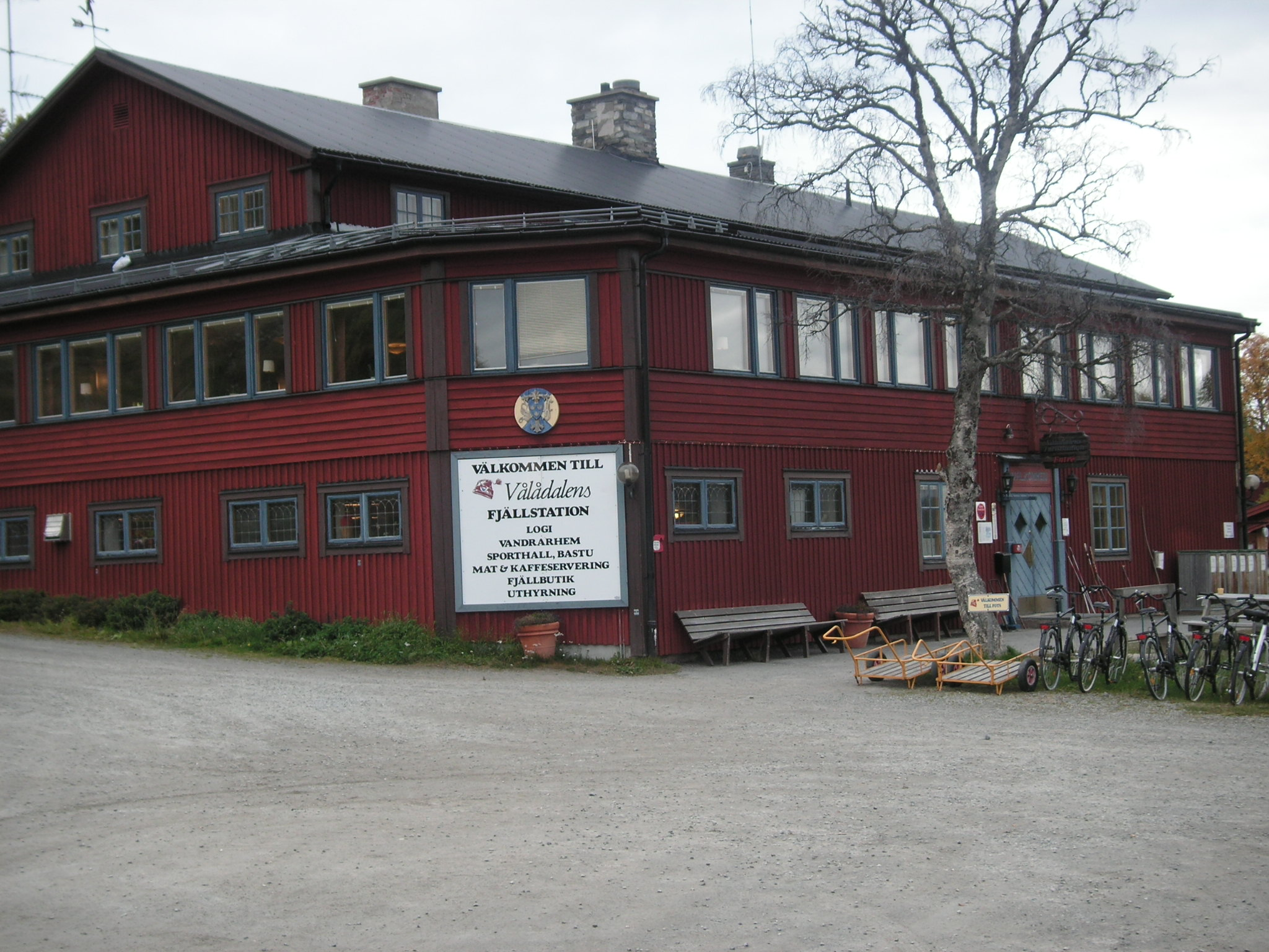 Main building